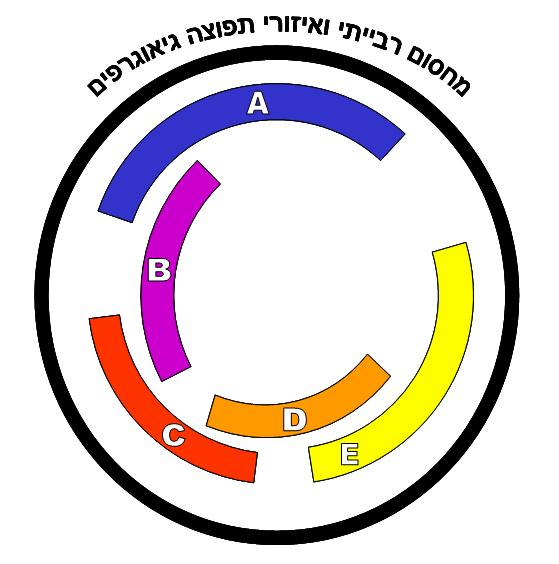 Ring Species